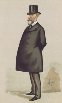 Caricature of Lt-General Sir EB Hamley KCB KCMG MP. Caption read "English Strategy".